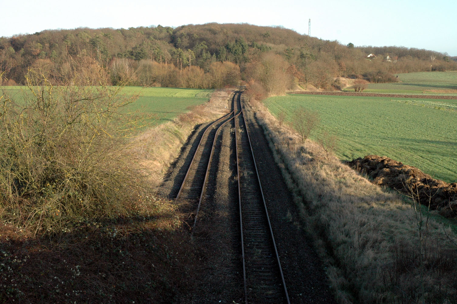 abandoned tracks of Württemberg's Western Railway near Vaihingen-Ensingen.